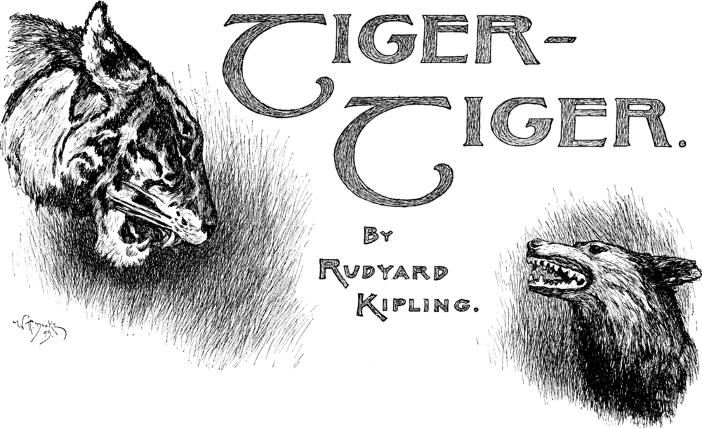 Will H. Drake, logo and illustrations for Kipling's story Tiger! Tiger!.